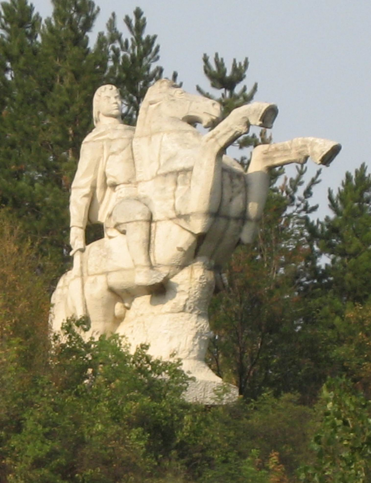 Monument of a Bulgarian warrior-woman in the passage "Boaza" near ancient bulgarian castle Misionis (Targovishte Province). The monument symbolizes Freedom, and the author of the sculpture is Vasil Radoslavov